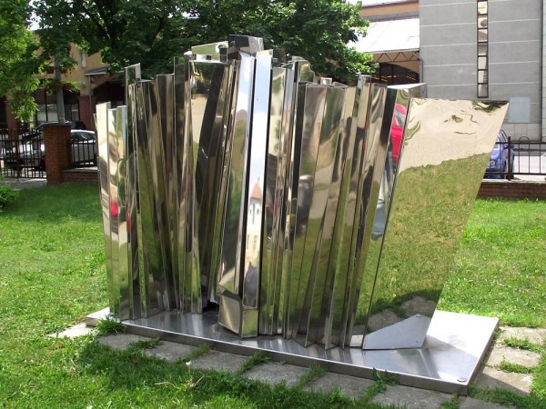 Bartók Fountain (Székesfehérvár, Hungary)